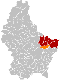 Own edit of Kanton EchternachLocatie.png